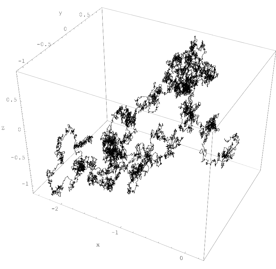 A single sample path of a three-dimensional Brownian motion (Wiener process) Wt, as generated by Wolfram Mathematica with a time step of size 0.0001, for times 0 ≤ t ≤ 2.